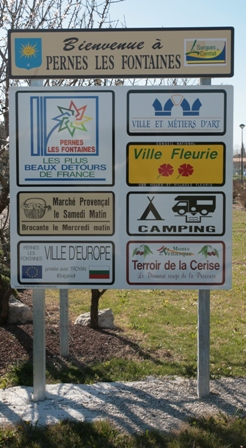 entrance panel of the village of Pernes les fontaines, France